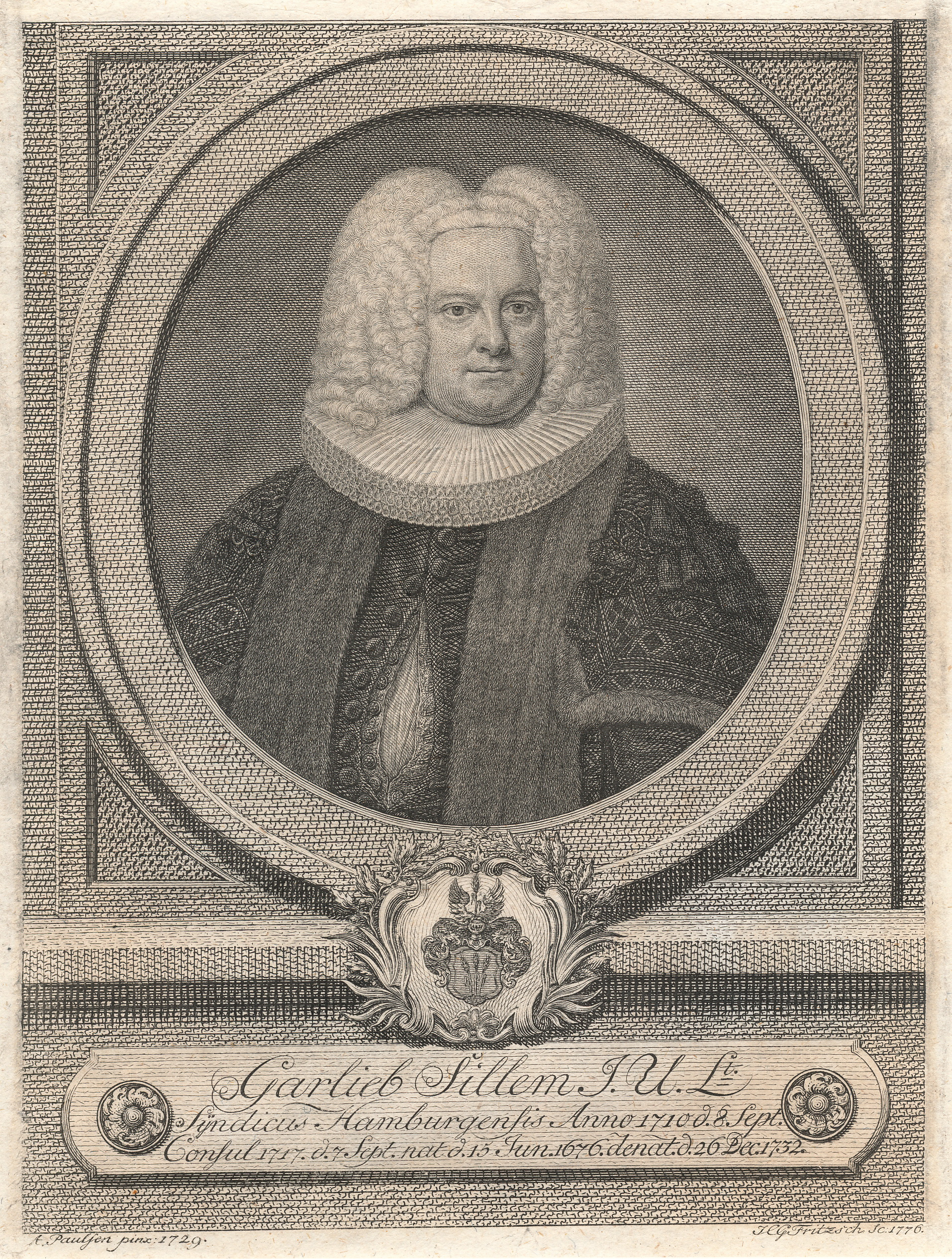 Reproduction of copper engraving showing Garlieb Sillem (1676 - 1732)